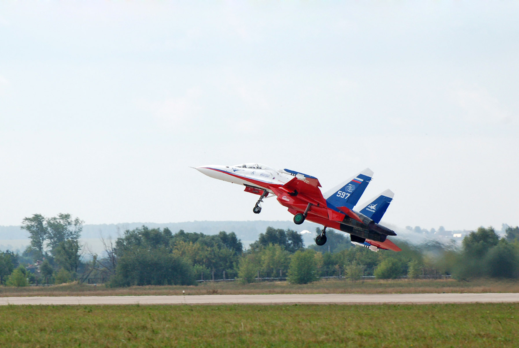 Flying laboratory Su-30LL (the international aerospace salon MAKS-2007)